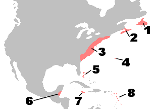 British colonies in North America, c. 1750 1: Newfoundland; 2: Nova Scotia; 3: The Thirteen Colonies; 4: Bermuda; 5: Bahamas; 6: British Honduras; 7: Jamaica; 8: British Leeward Islands and Barbados